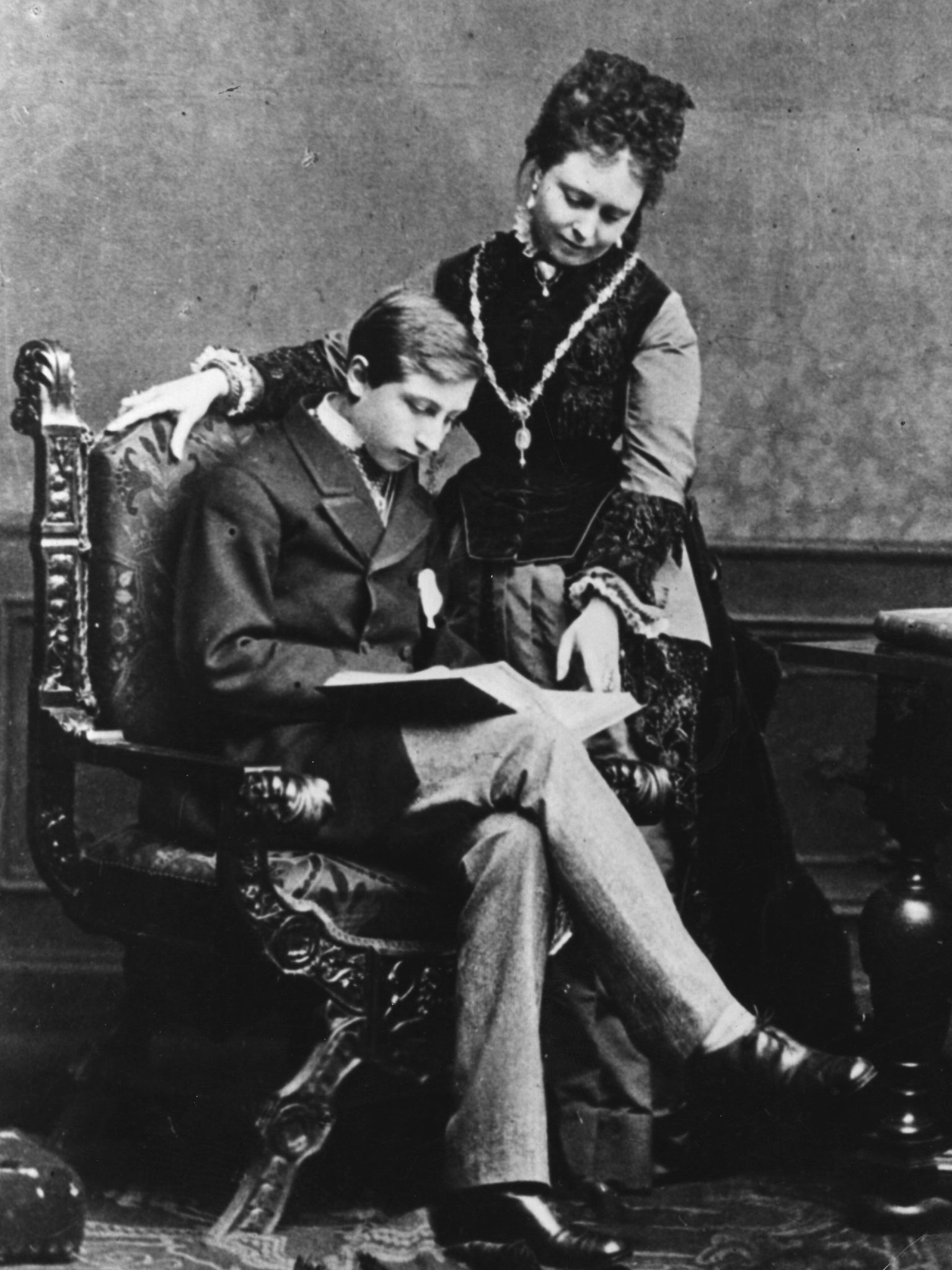 Vicky with her eldest child Willy (later Wilhelm II of Germany), 1870s